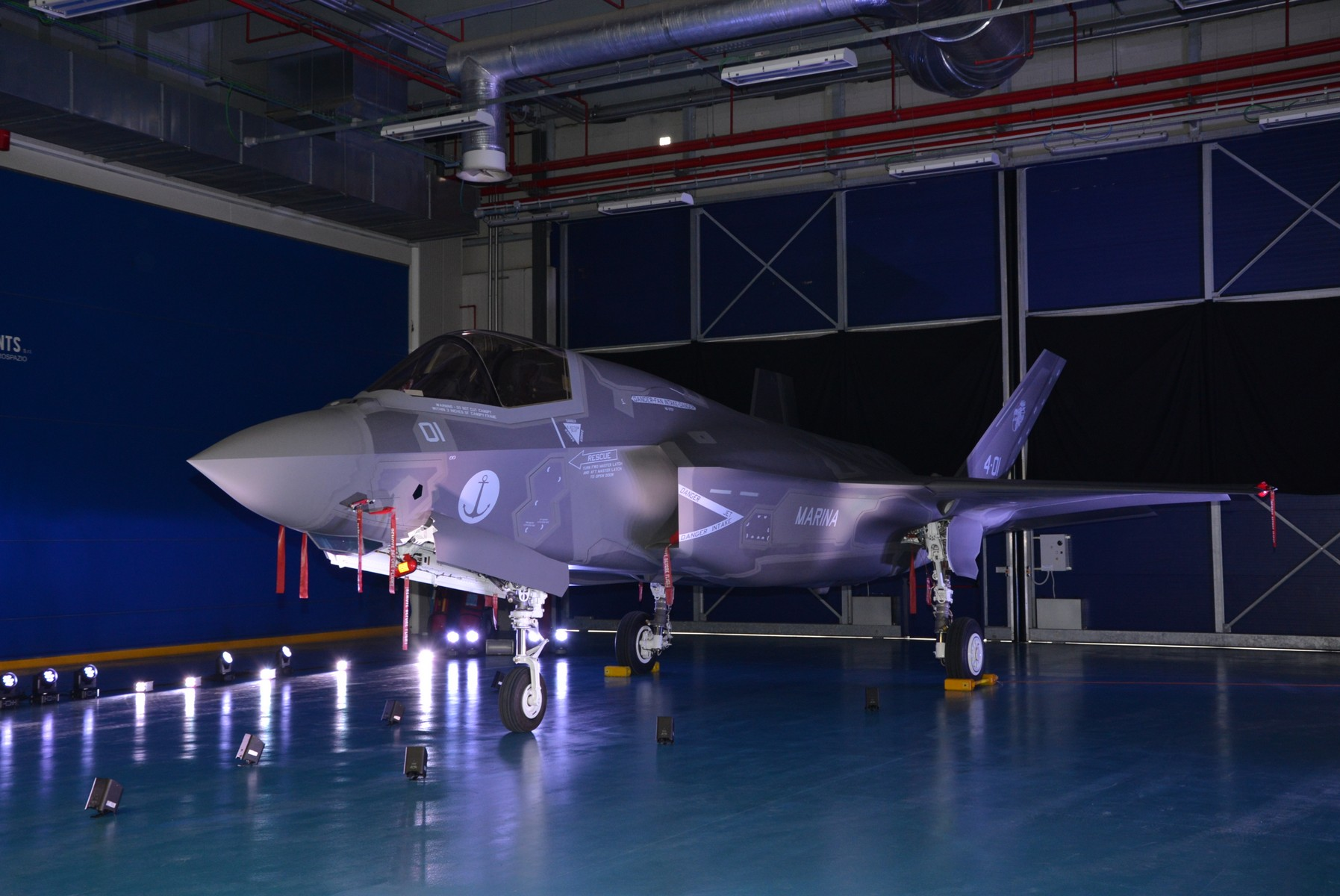 the first Italian F-35B (BL-1) delivered to the Marina Militare